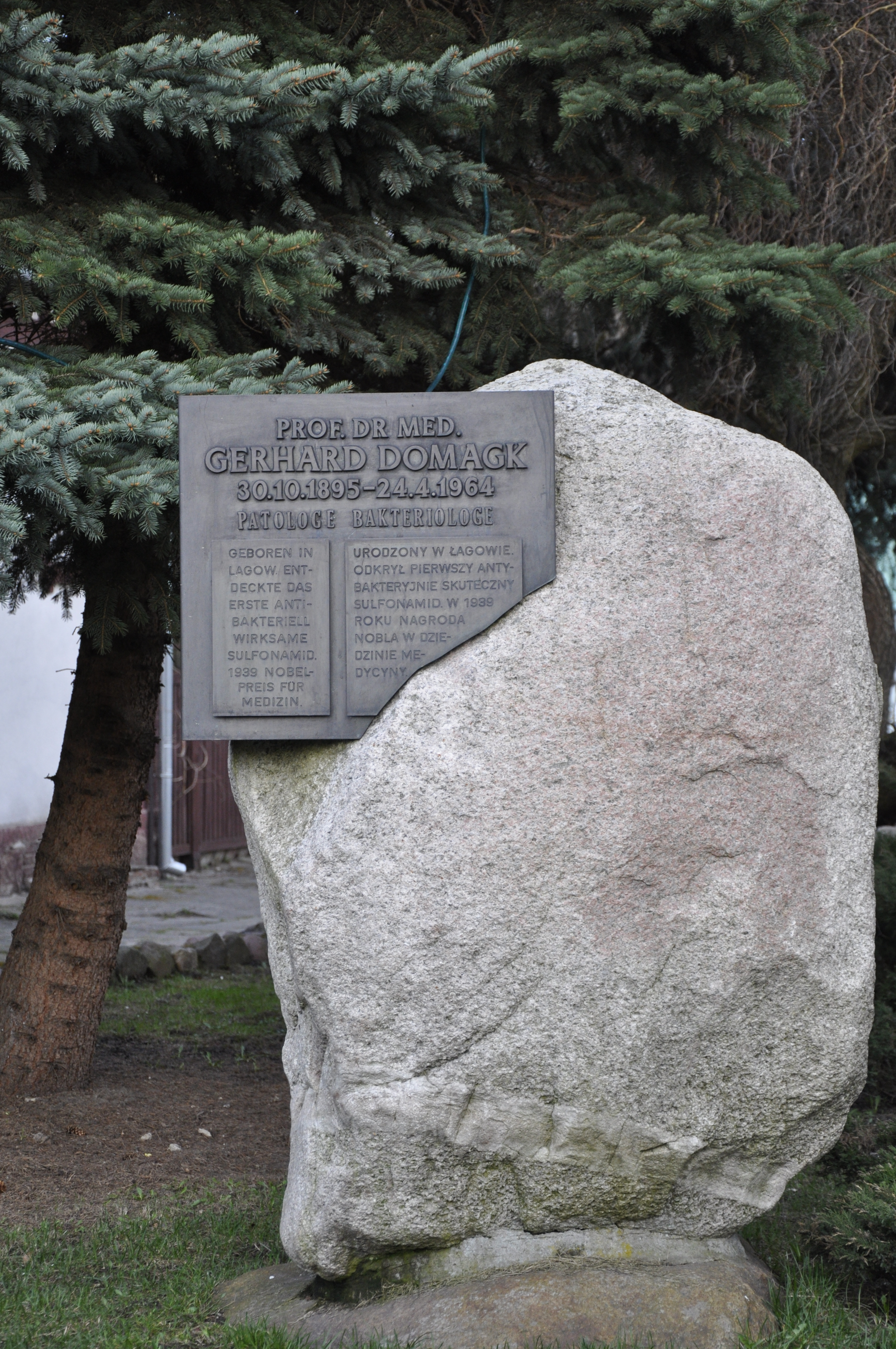 Memorial stone to Gerhard Domagk in Łagów, Poland